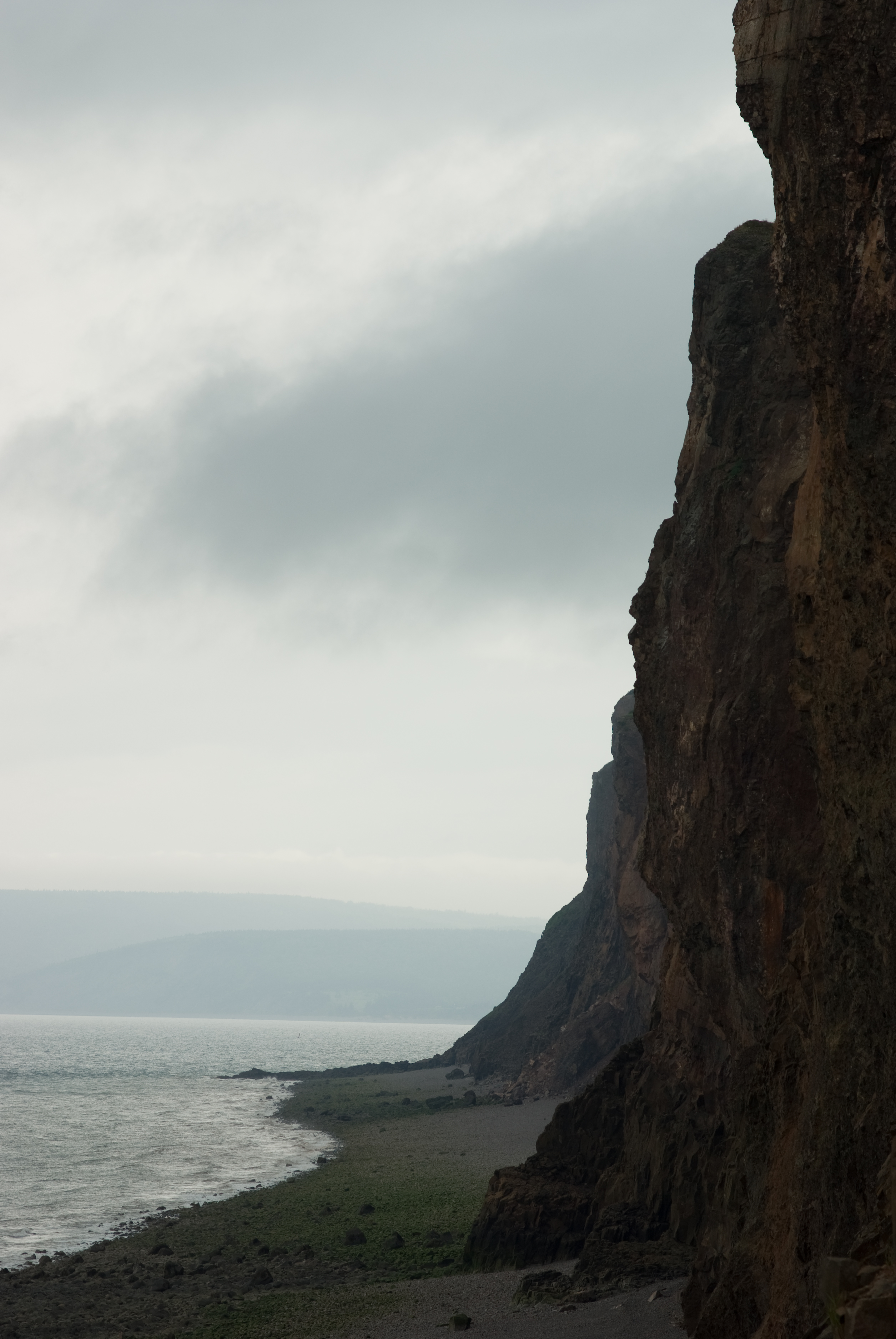 From original flickr post: The cliffs by Advocate Harbour along the Bay of Fundy in Nova Scotia.